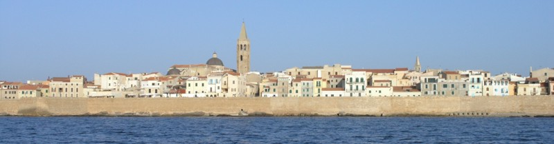 Alghero walls sea side Sardinia